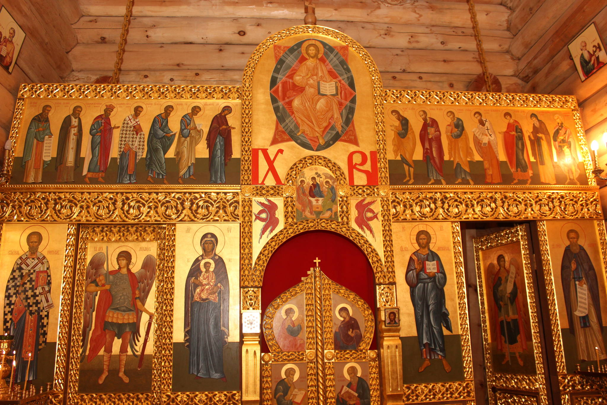 Trinity Church, Antarctica, inner decoration